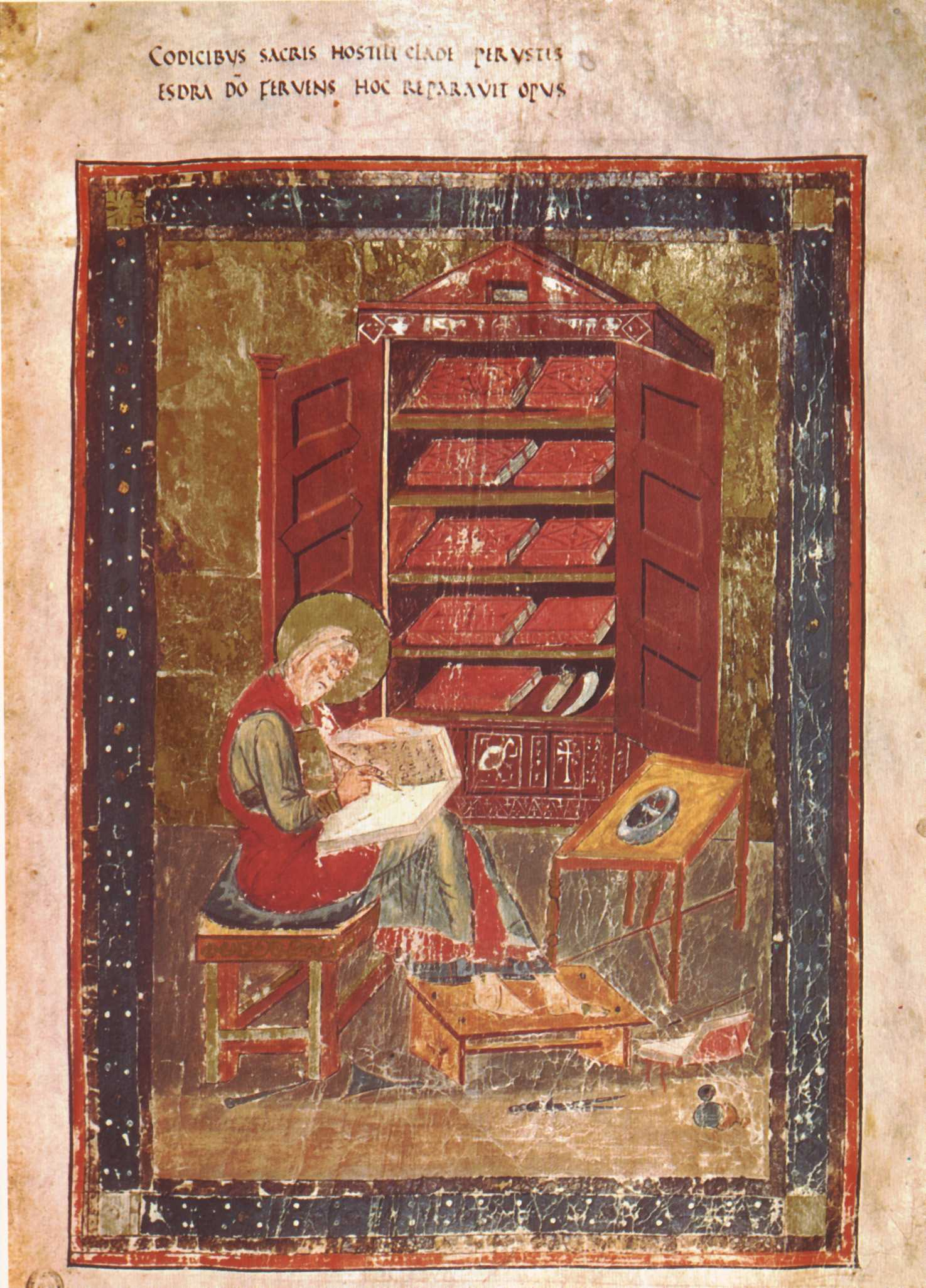 Folio 5r from the Codex Amiatinus (Florence, Biblioteca Medicea Laurenziana, MS Amiatinus 1), Ezra the scribe. "When the sacred books had been consumed in the fires of war, Ezra repaired the damage."